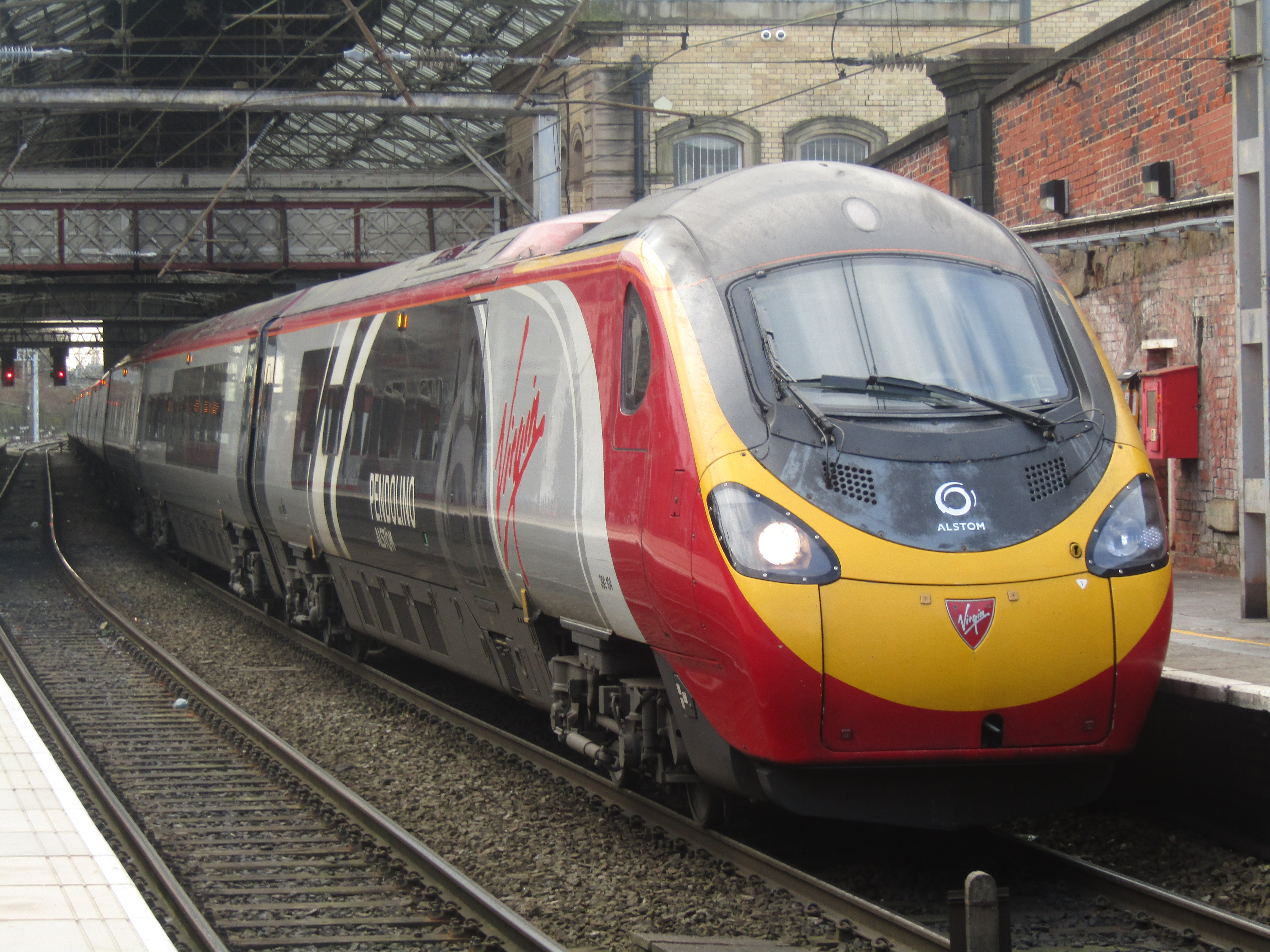 Alstom Pendolino at Preston station platform 4 on a London Euston - Glasgow Central fast service